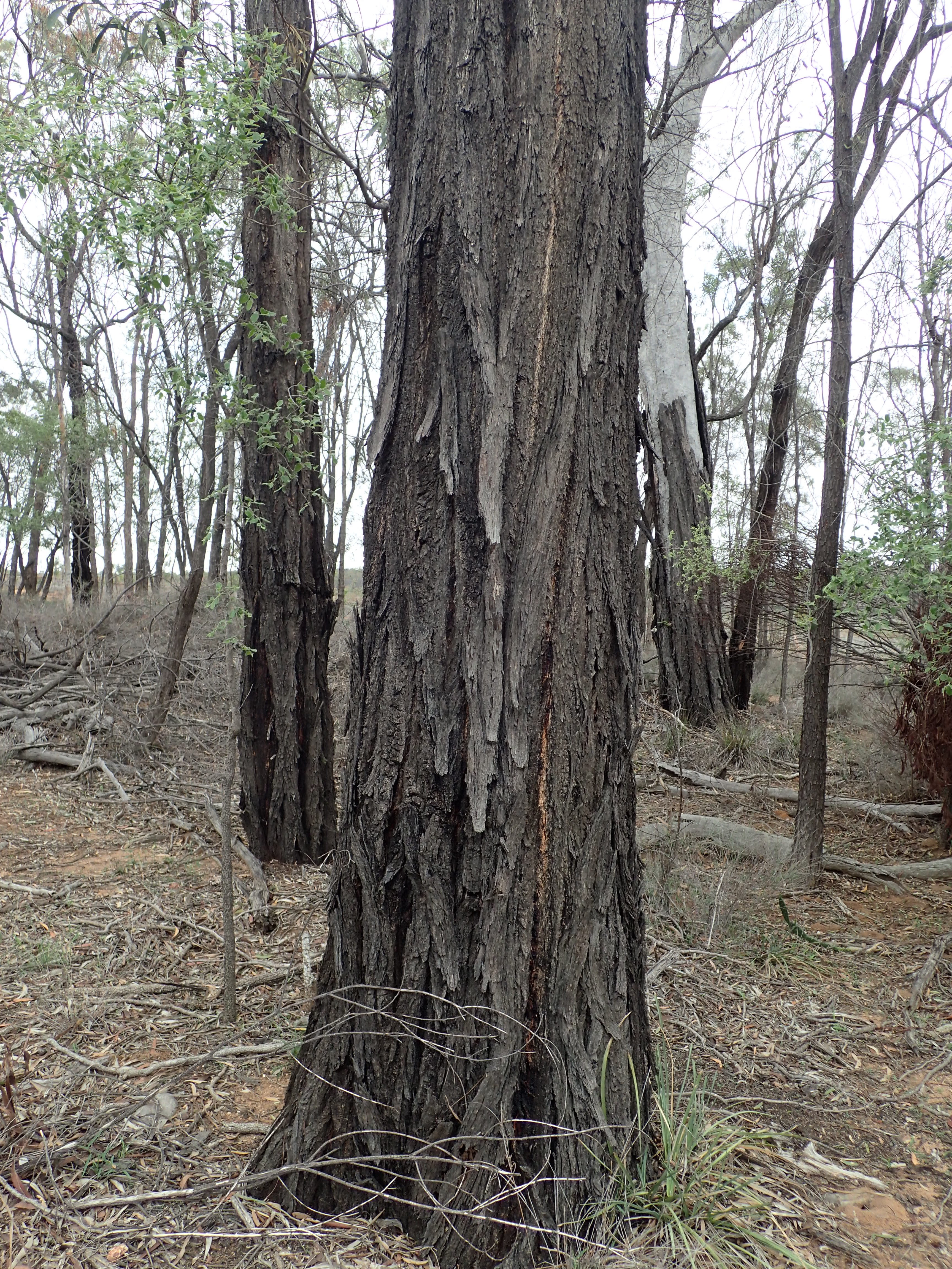 Bark on the trunk of Eucalyptus rhombica near the Karara to Milmerran road